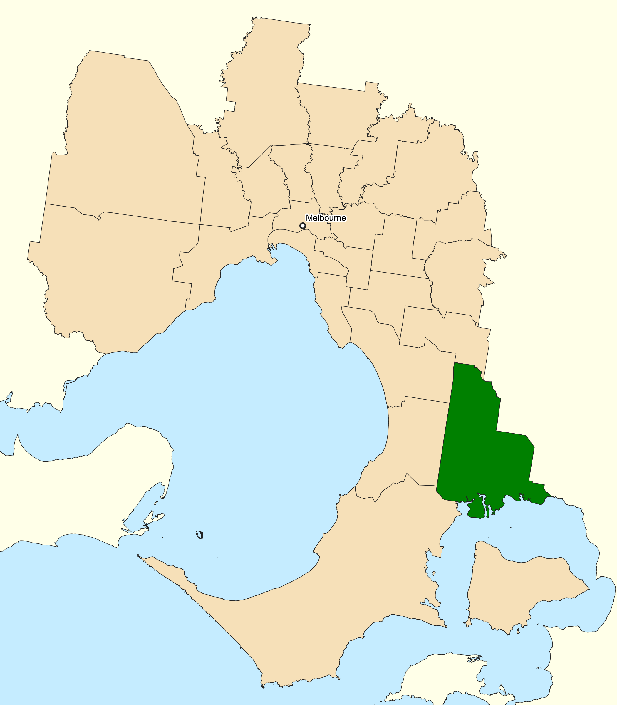 Location of the Australian federal electoral division of Holt (dark green) in Greater Melbourne, Victoria as of the 2019 Australian federal election. Incorporates or developed using Administrative Boundaries ©PSMA Australia Limited licensed by the Commonwealth of Australia under Creative Commons Attribution 4.0 International licence (CC BY 4.0).